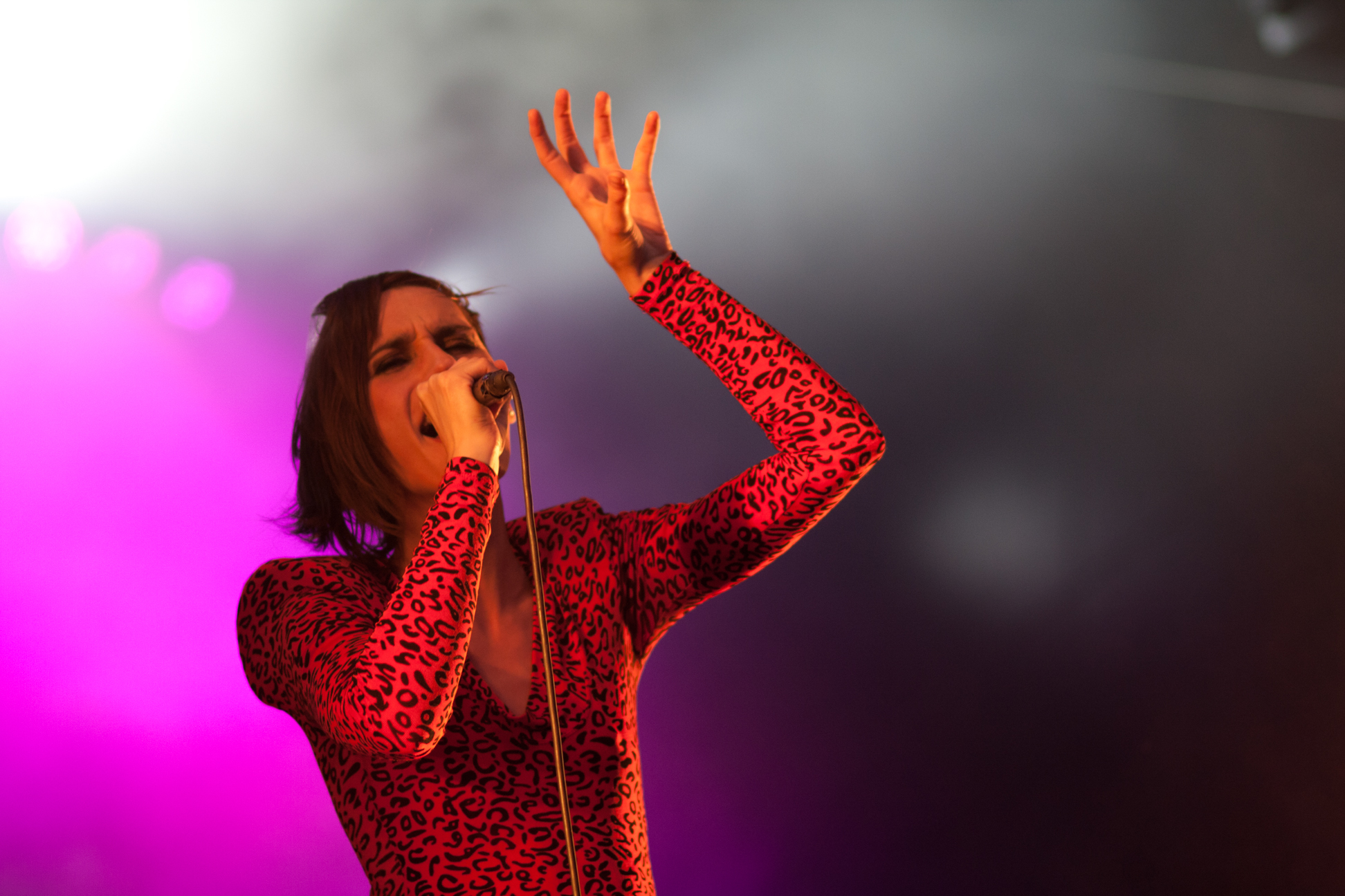 Follow me on facebook Twitter : @didyPhotography All the photographies I've made are now under CC0 (Creative Commons Zero) CC0 - learn more To the extent possible under law, Eddy BERTHIER has waived all copyright and related or neighboring rights to Yelle @ BSF 2011. This work is published from: France.